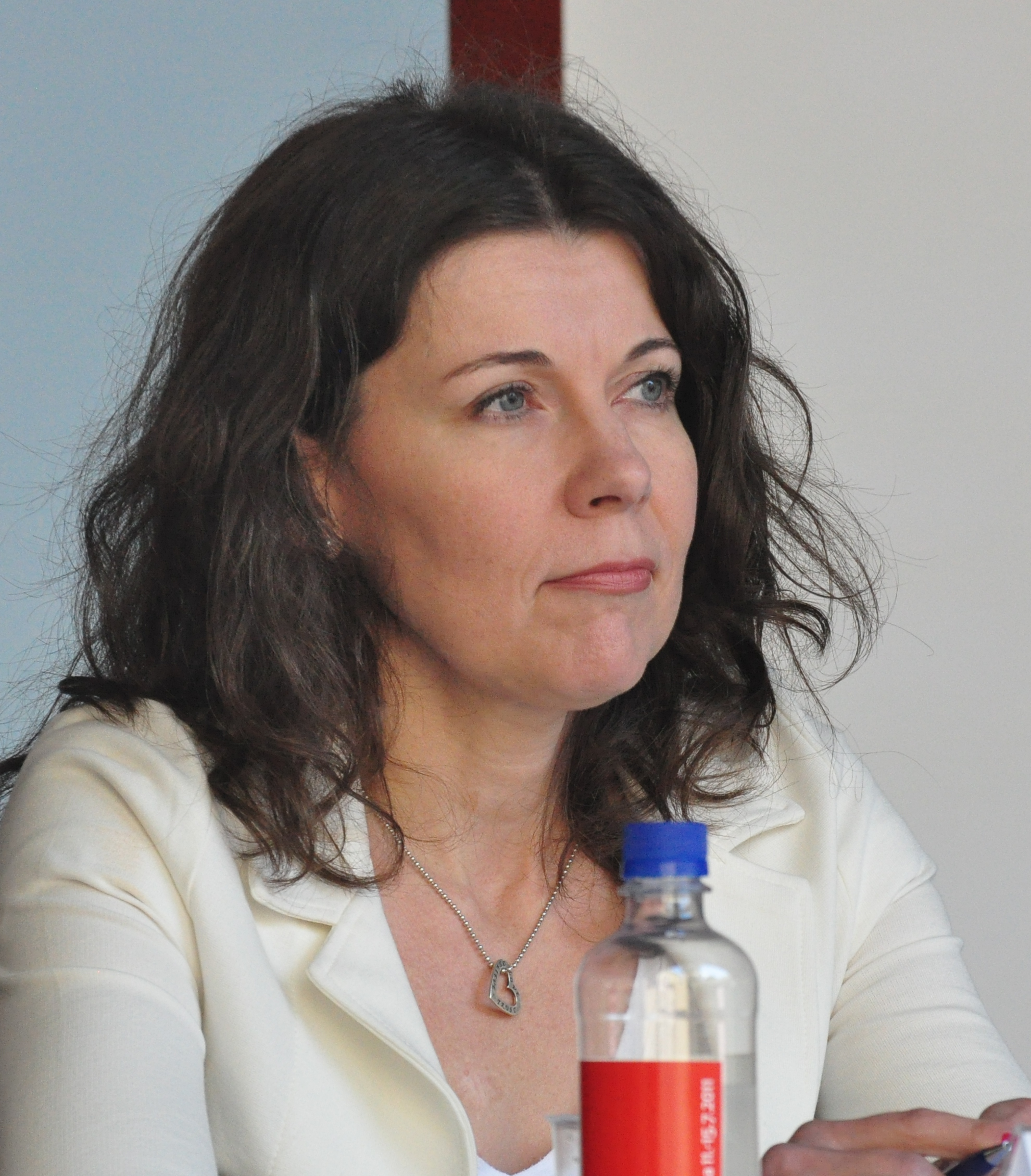 Finnish MP Arja Juvonen at the SuomiAreena event in Pori, 2011.